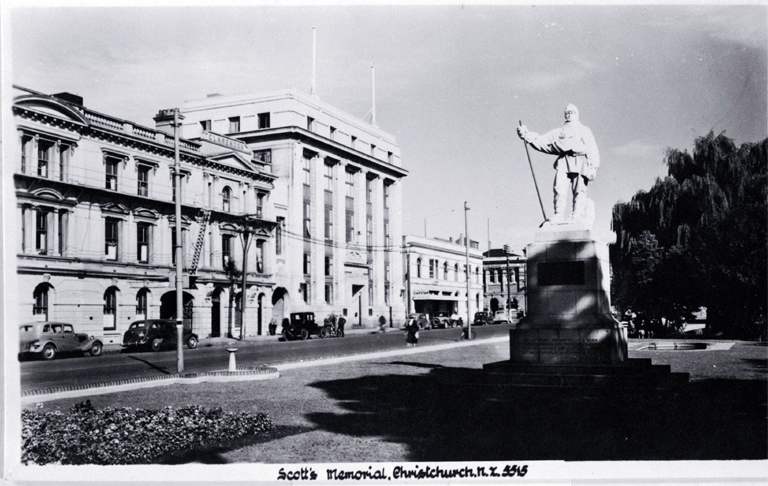 Scott memorial, corner of Worcester Street and Oxford Terrace, Christchurch. The Clarendon Hotel can be seen on the left next to the Public Trust Office.